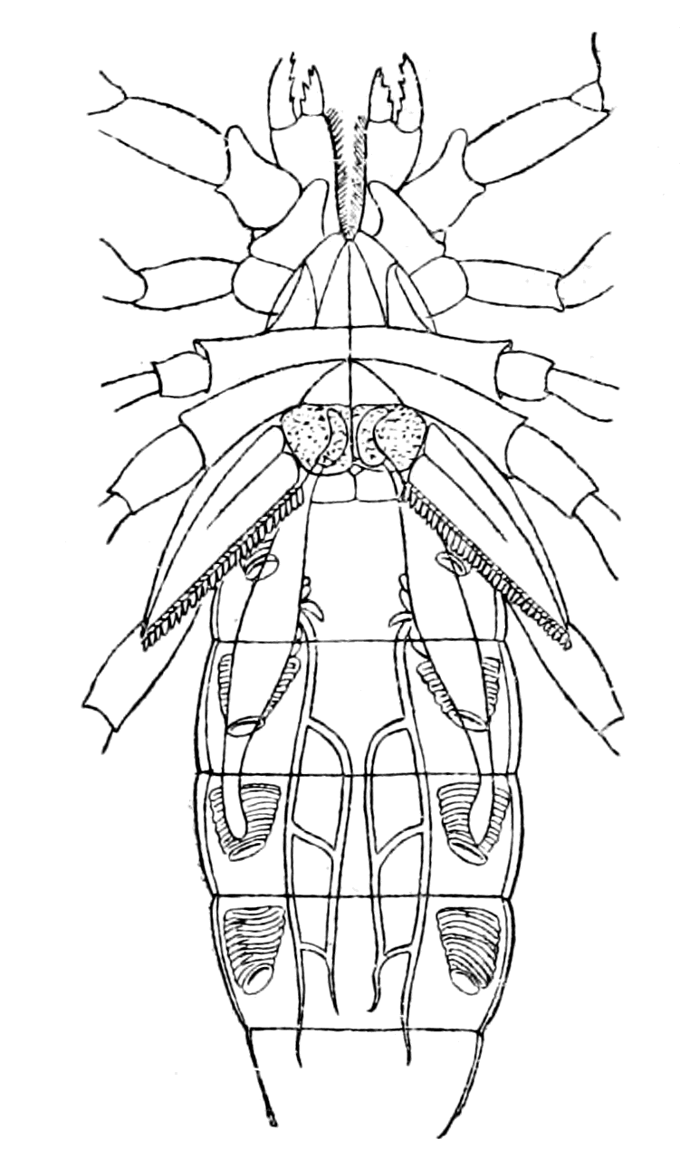 Fig. 151.—Under Surface of Scorpion (Androctonus). The operculum is marked out with dots, and on each side of it is seen one of the pectens.